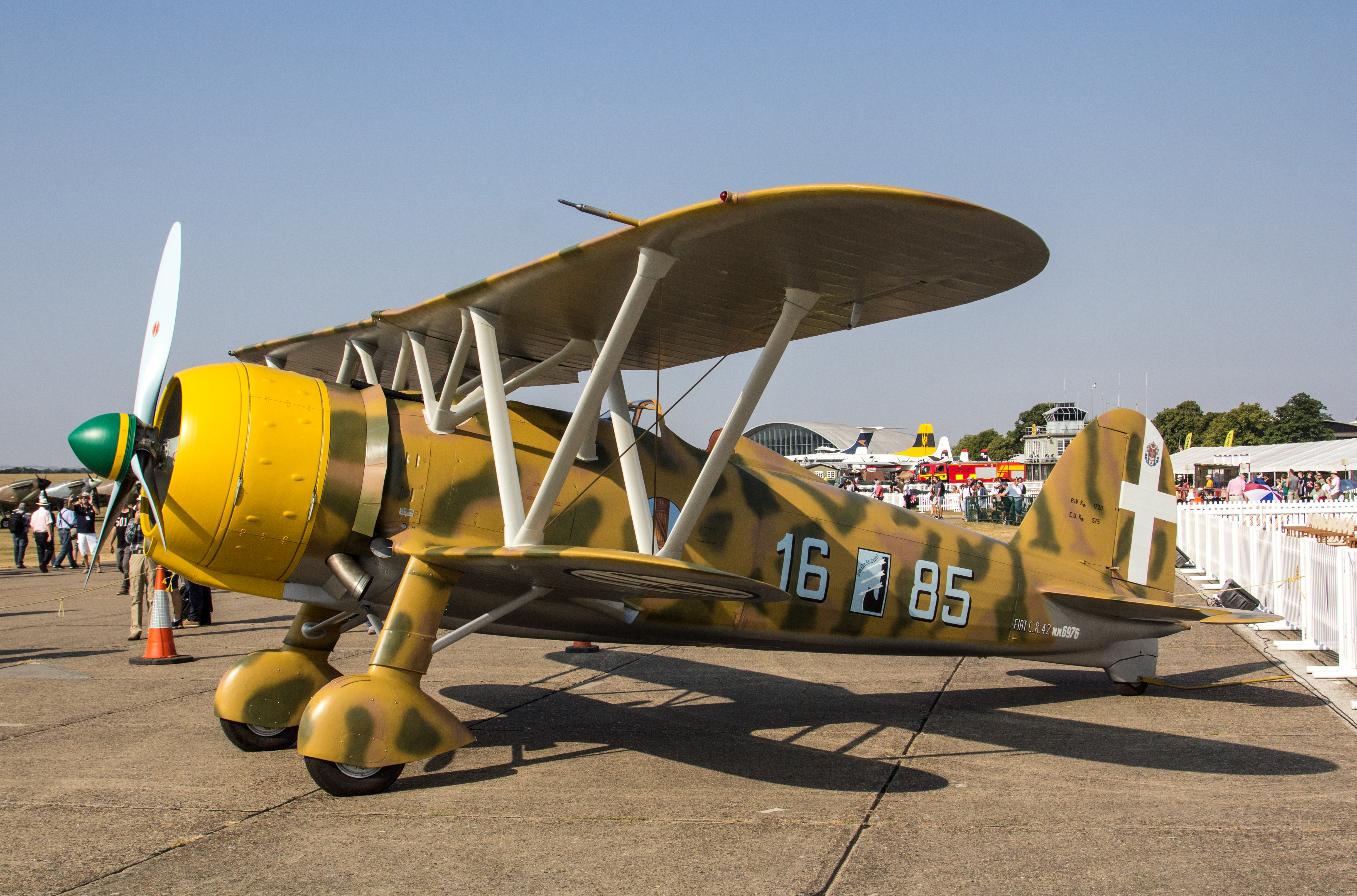 Flying Legends 2018, Cambridgeshire